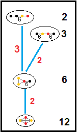 Paracompact hyperbolic subgroup tree from [3,6,3]